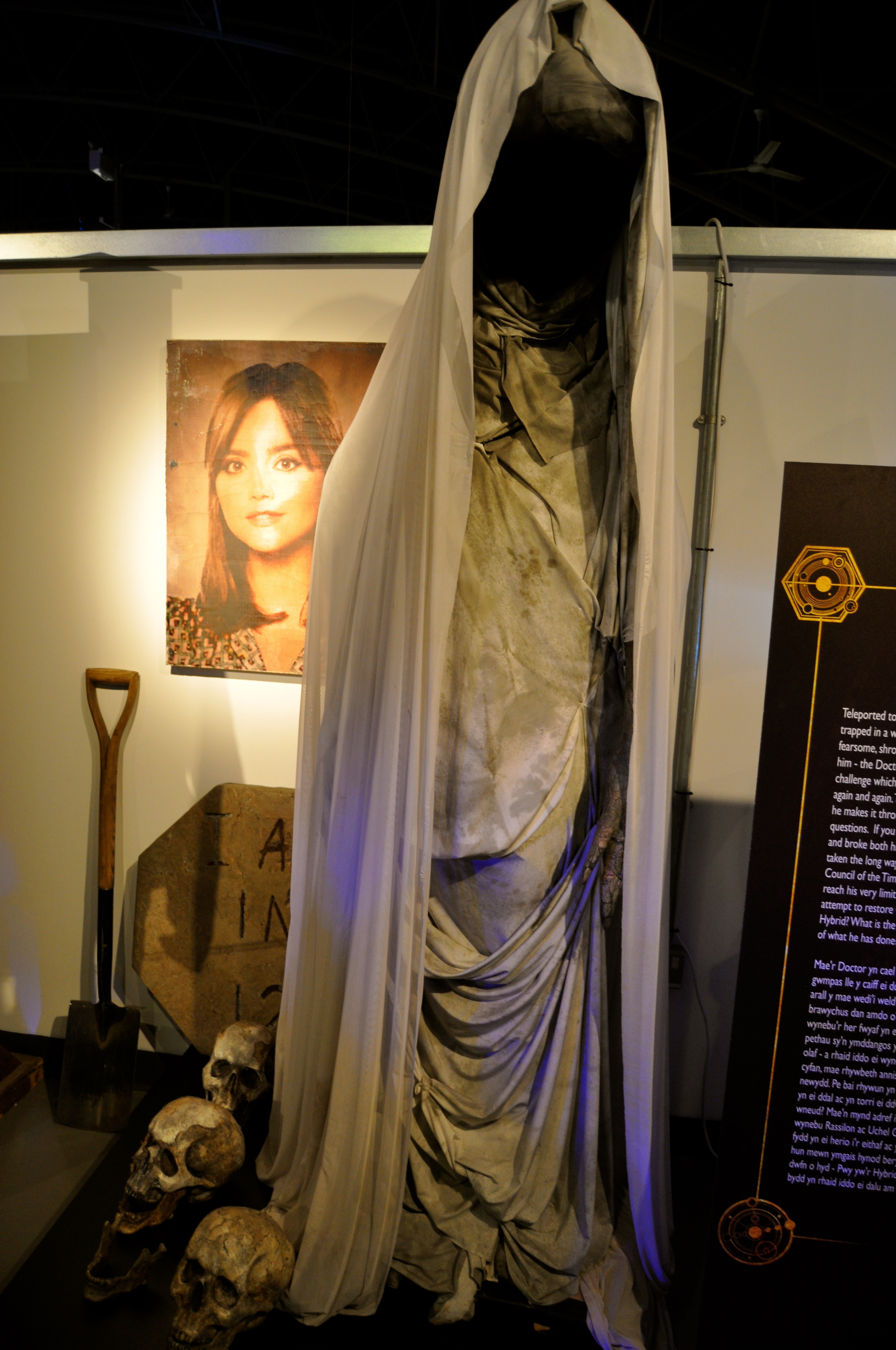 DWE Cardiff Bay, Port Teigr November 2016 Doctor Who Experience